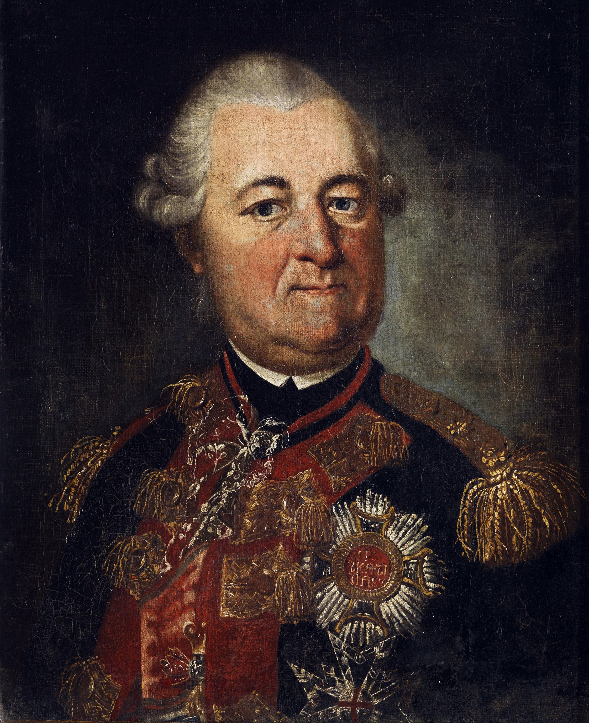 Portrait of Charles Theodore of Bavaria (1724-1799)